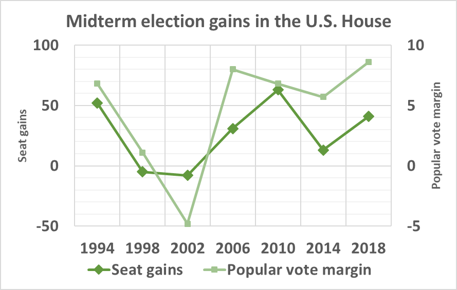 This graph of U.S. mid-term elections since 1994 shows seat gains and popular vote totals for the party not holding the presidency in elections for the United States House of Representatives. Note that the popular vote totals do not include uncontested seats, so those figures may differ from tallies that do include uncontested seats. Seat gain sources: 1994-2014: Table 2-3: Net Party Gains in House and Senate Seats, General and Special Elections, 1946 - 2014. Brookings Institution. Retrieved on 12 November 2018. 2018: (11 November 2018). "We’re Tracking The Unresolved Midterm Races". FiveThirtyEight. Retrieved on 12 November 2018. Popular vote source: 1994-2014: Election Statistics, 1920 to Present. United States House of Representatives. 2018: 2018 House Popular Vote Tracker. Dave Wasserman.